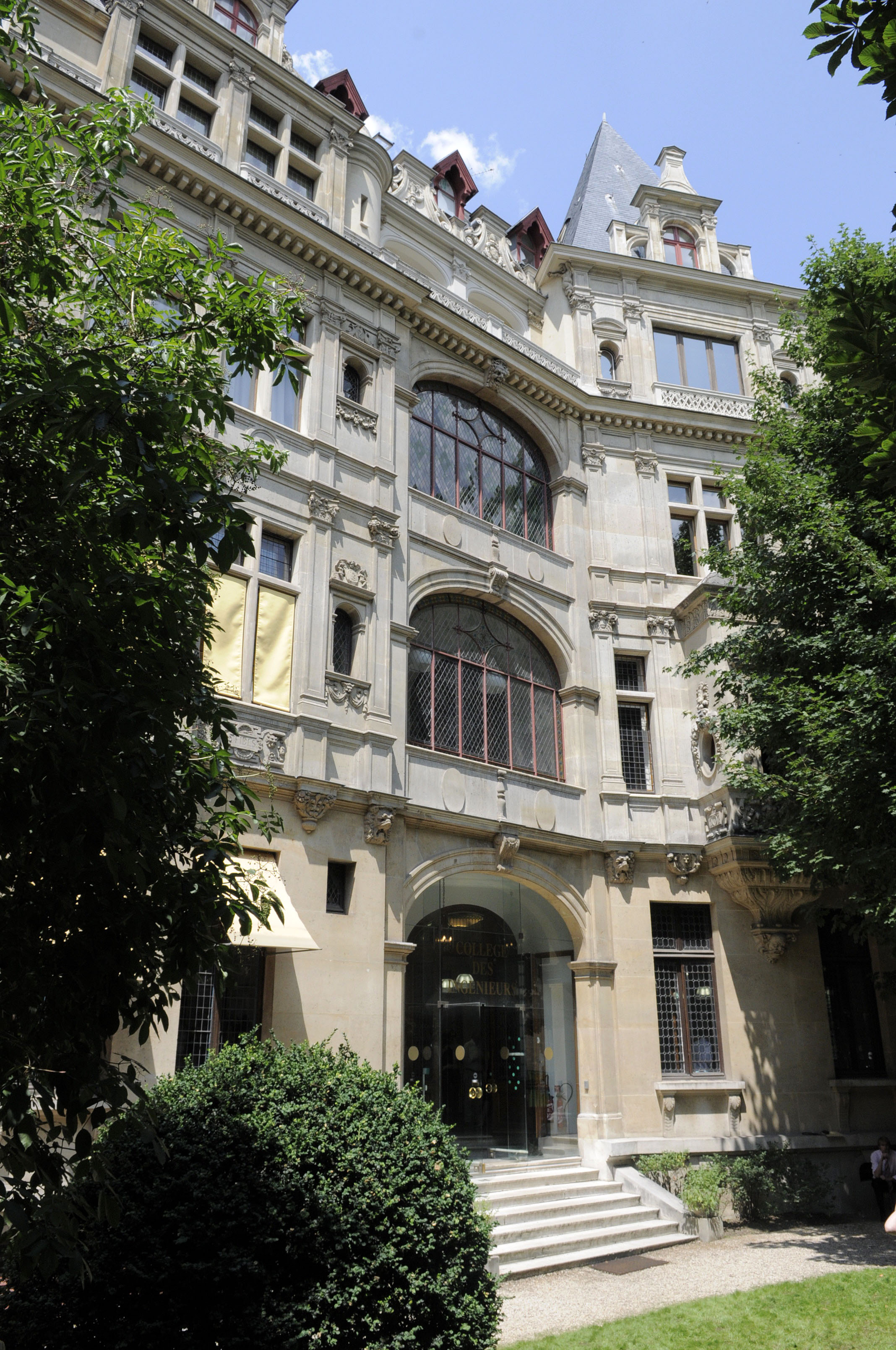 Headquarters of CDI.